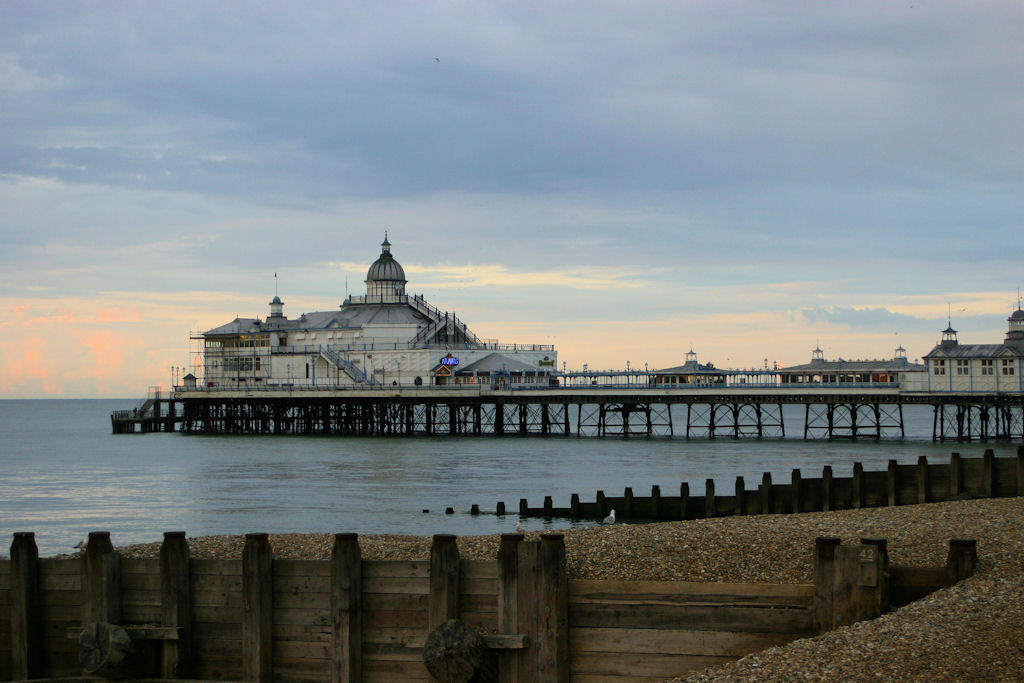 View of Eastbourne Pier, East Sussex, England